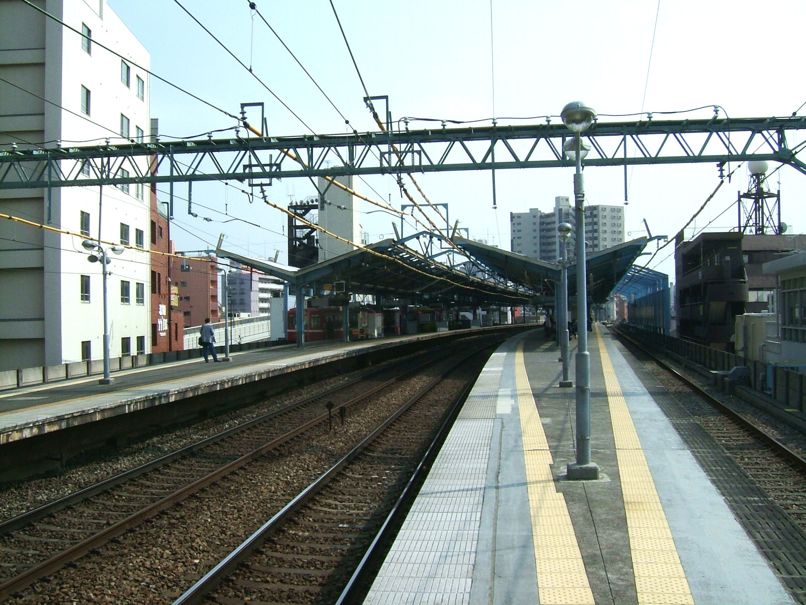 The platforms at Heiwajima Station on the Keihin Electric Express Railway Main Line in Ōta city, Tokyo, Japan